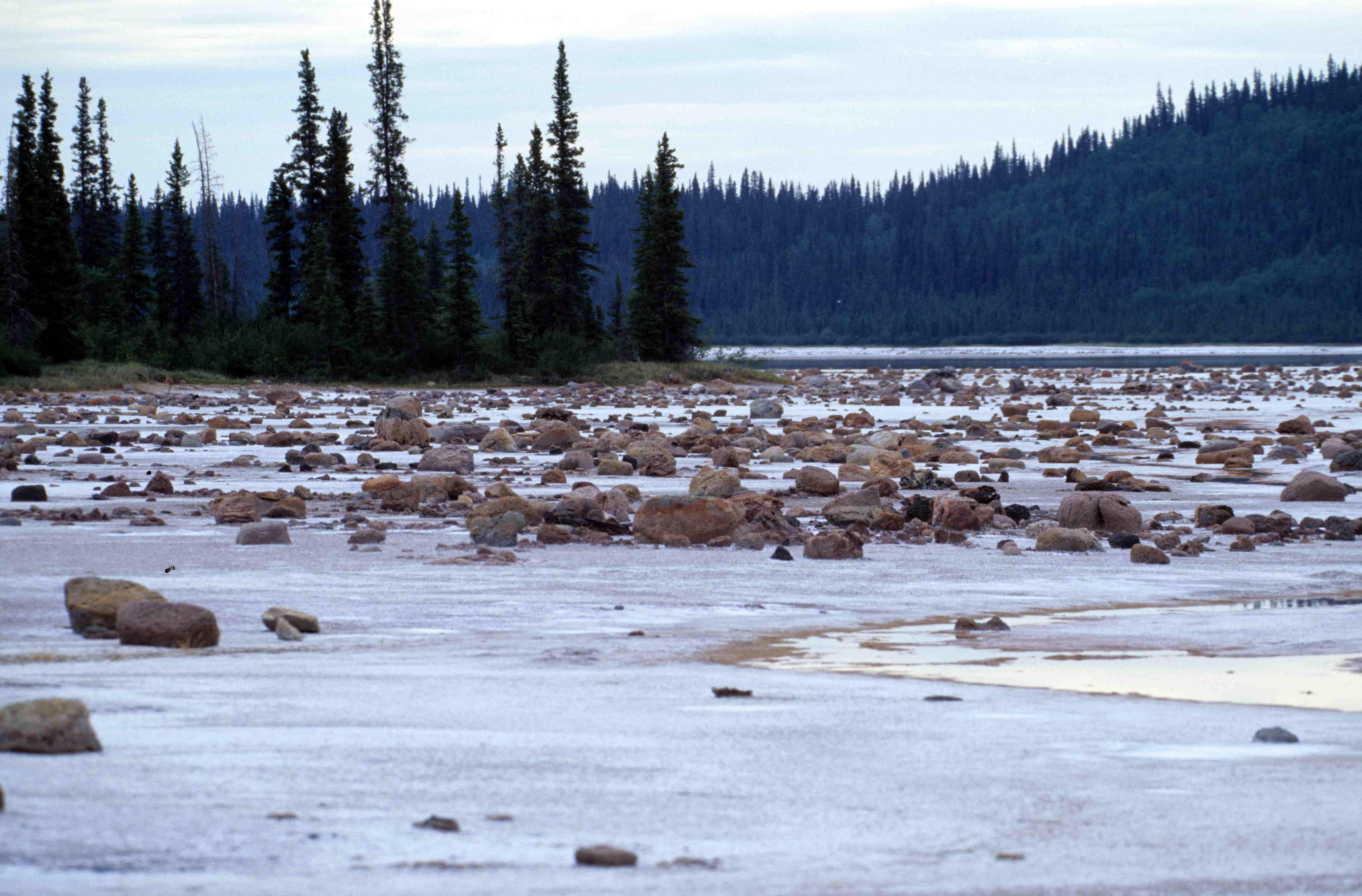 Gros Beak Lake (Wood Buffalo National Park, Canada)